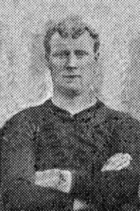 George Rushton - Brentford FC 1909-10 taken from a team picture by Wakefields published in 1909.